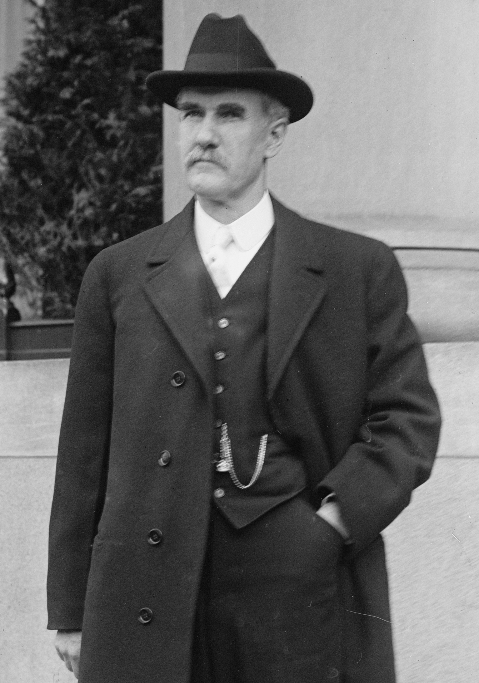 Former Governor of Iowa Beryl F. Carroll.